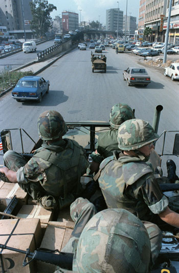 U.S. Marines on patrol in Beirut, April 1983. (Department of Defense)